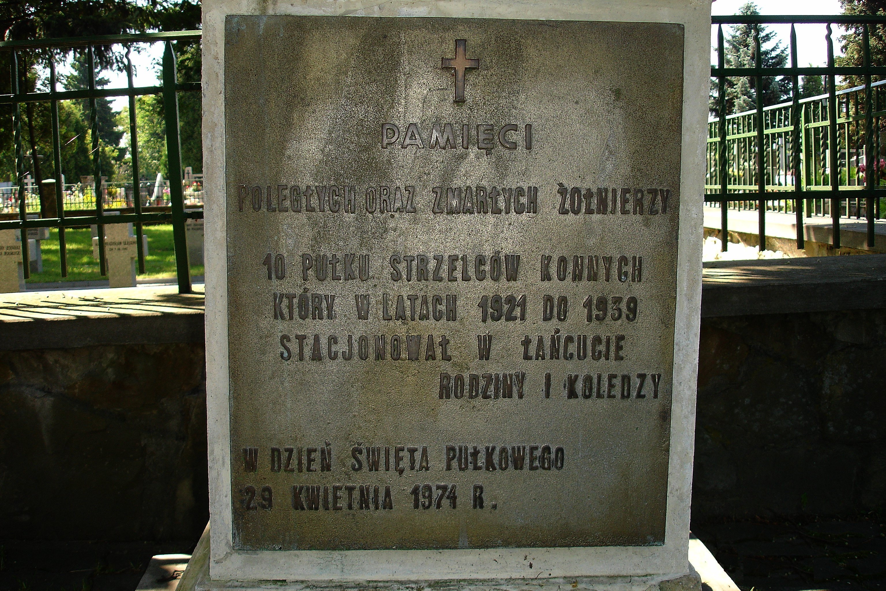 The commamorating plate on cemetary in Łańcut.